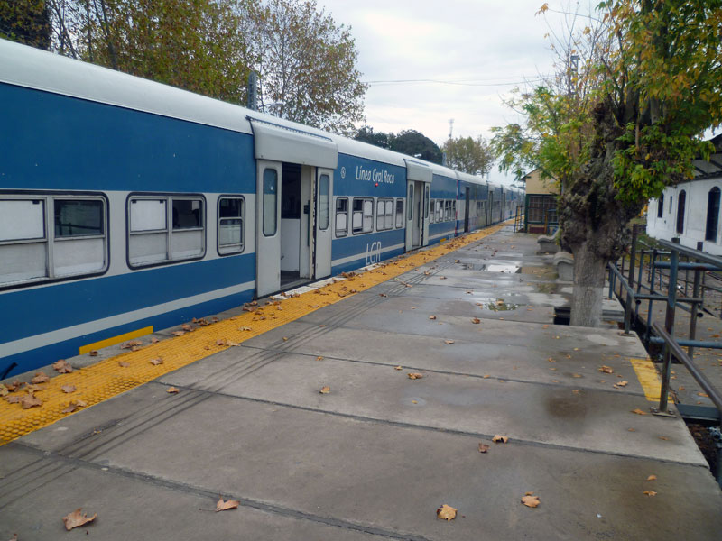 Gutiérrez train station